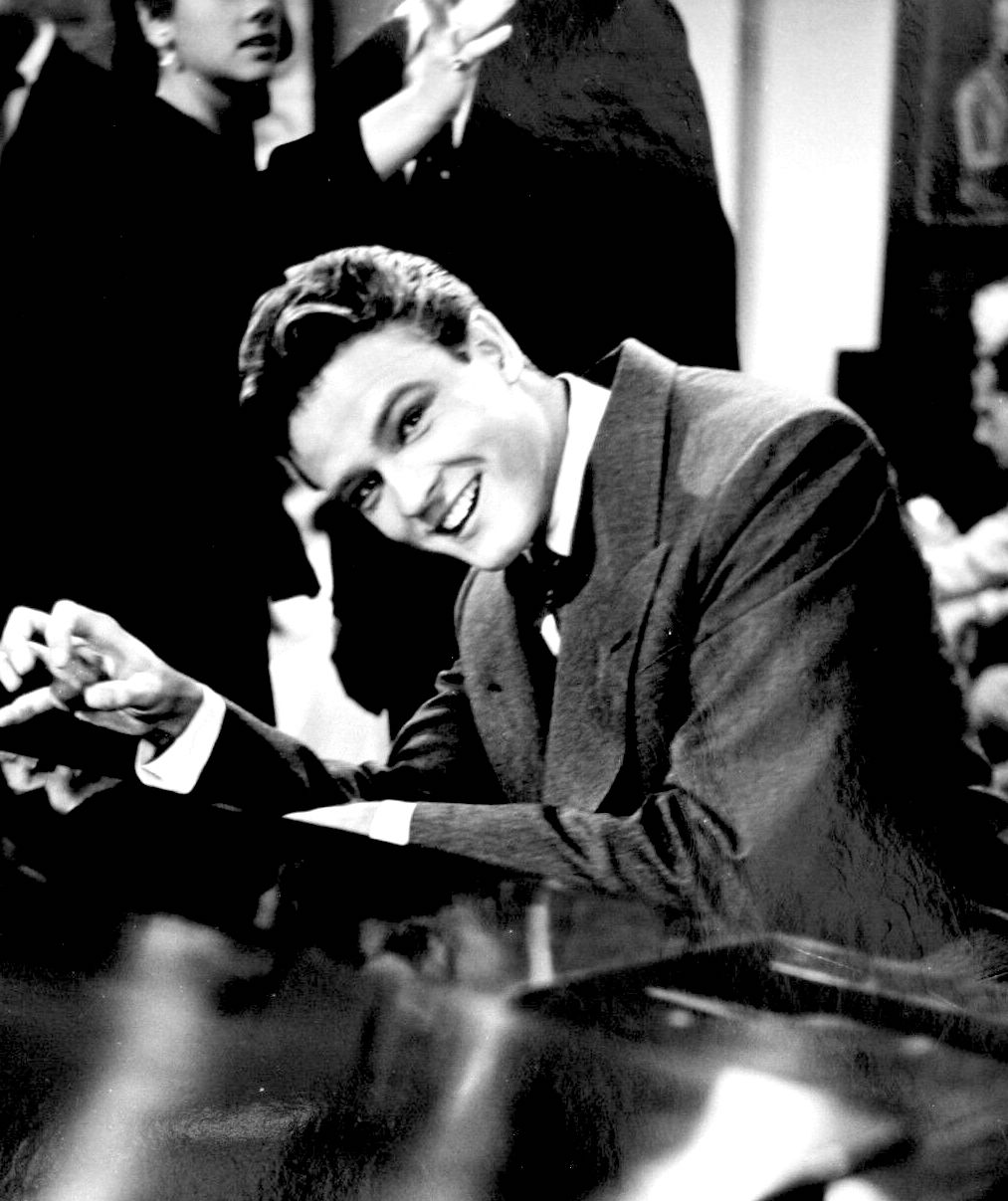 John Ericson in Rhapsody (1953)